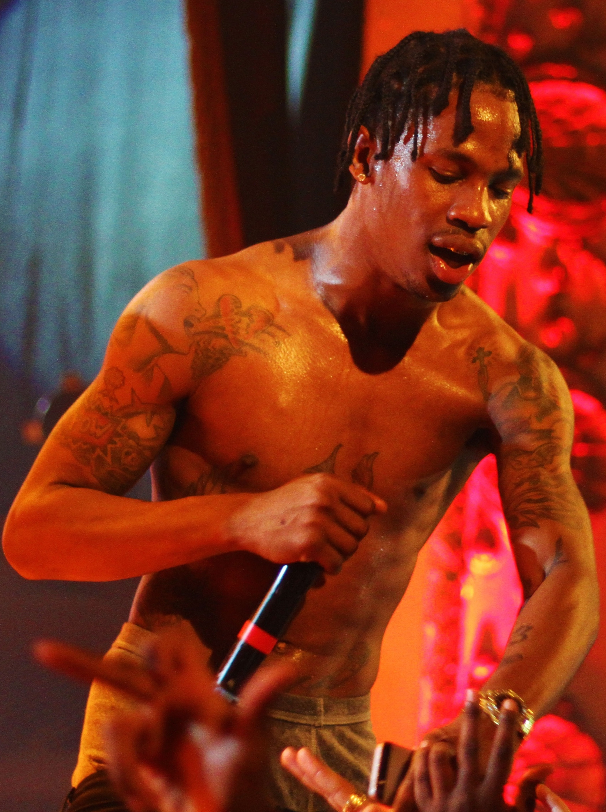 Travi$ Scott in 2014